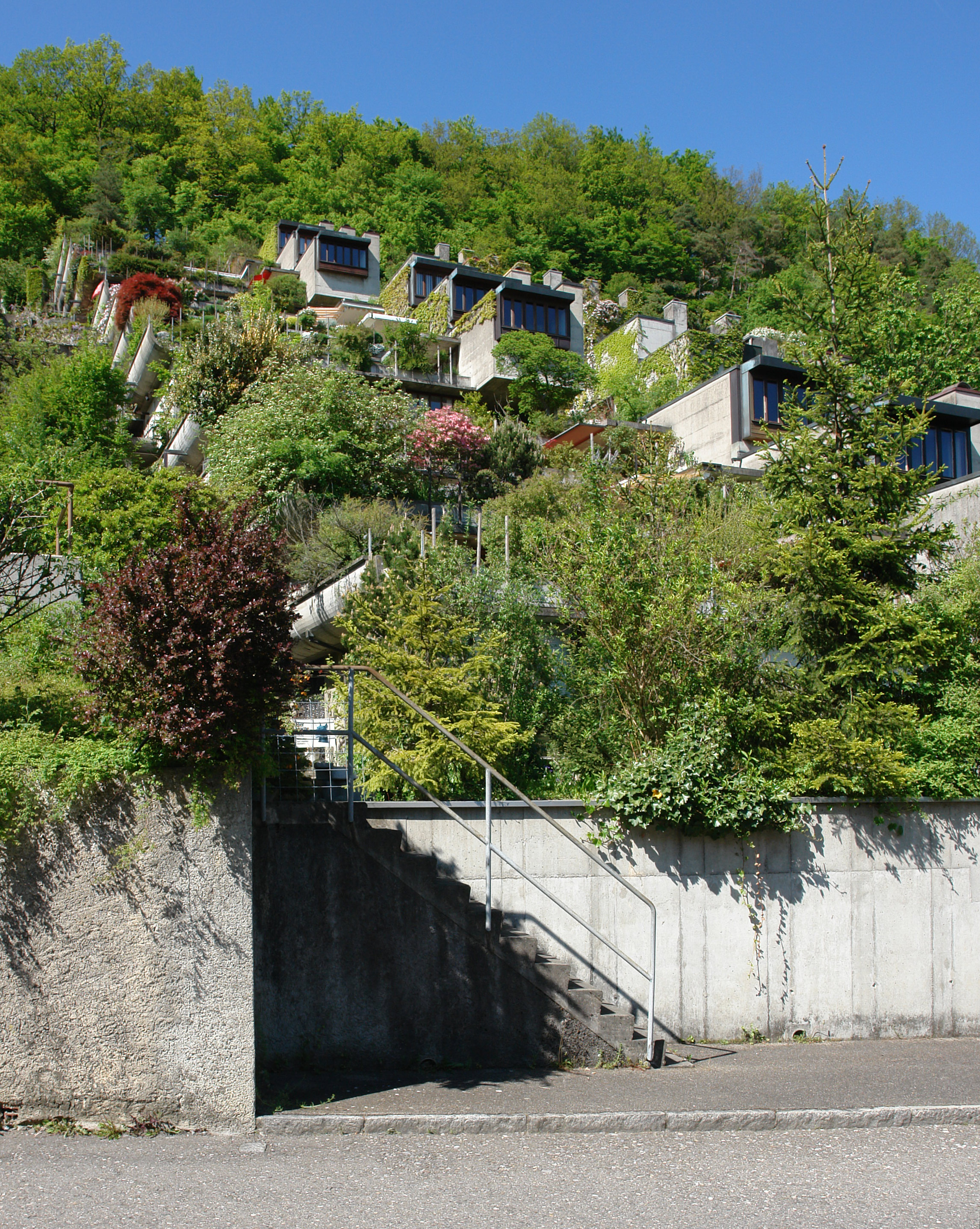 Terrassensiedlung Mühlehalde, 40 estates, built 1963-71, Architects: Scherer, Strickler + Weber, Zürich, Metron, Brugg